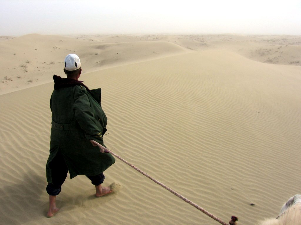 Landscape in Taklamakan desert near Yarkand, Autonomous Region of Xinjiang, China. Digital photo taken by author and post-processed with The GIMP.